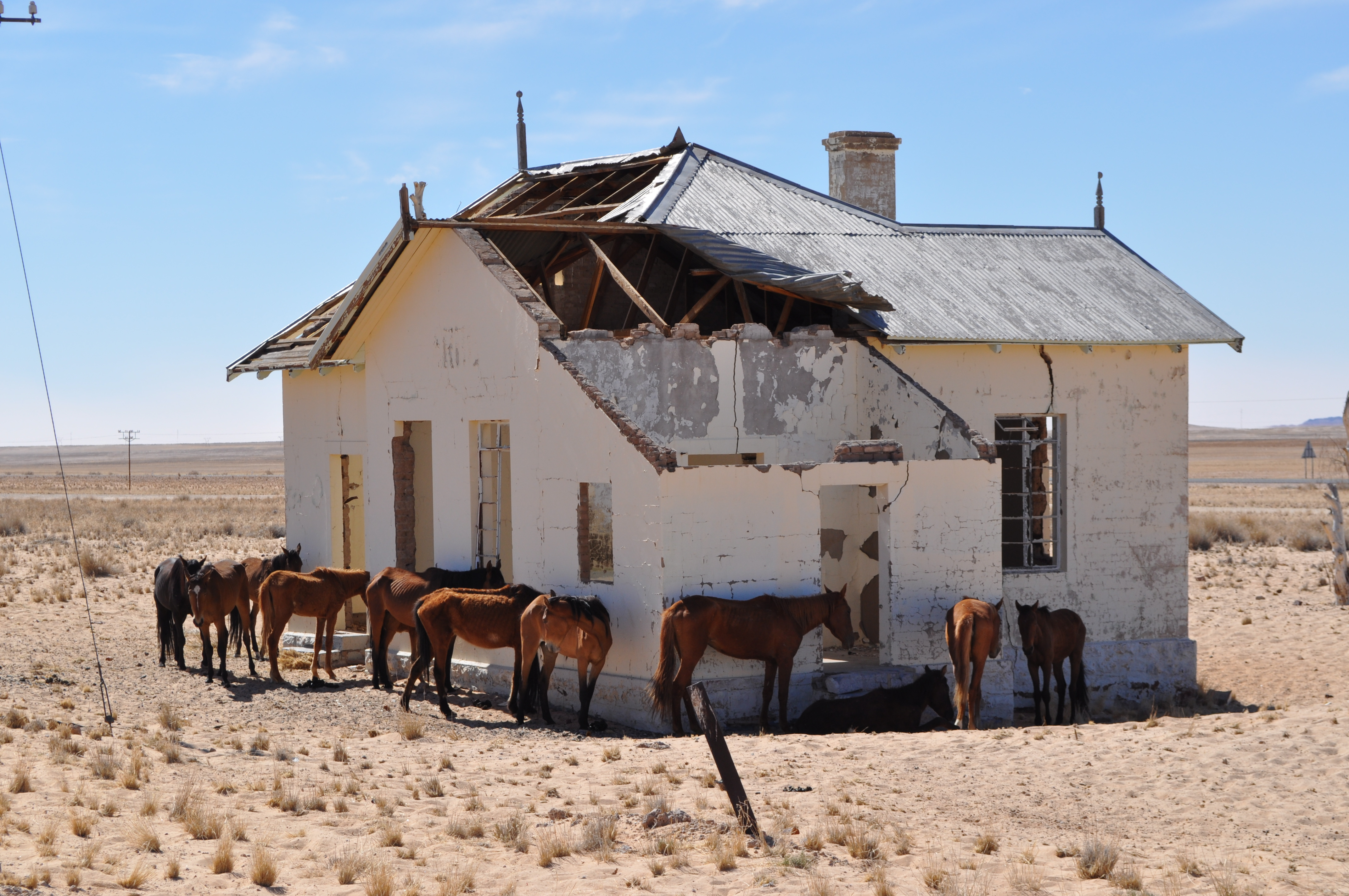 Resting next to the decrepit German colonial train station Garub between Aus and Lüderitz. They are thought to be descendants of horses abandoned by German soldiers during WW1.